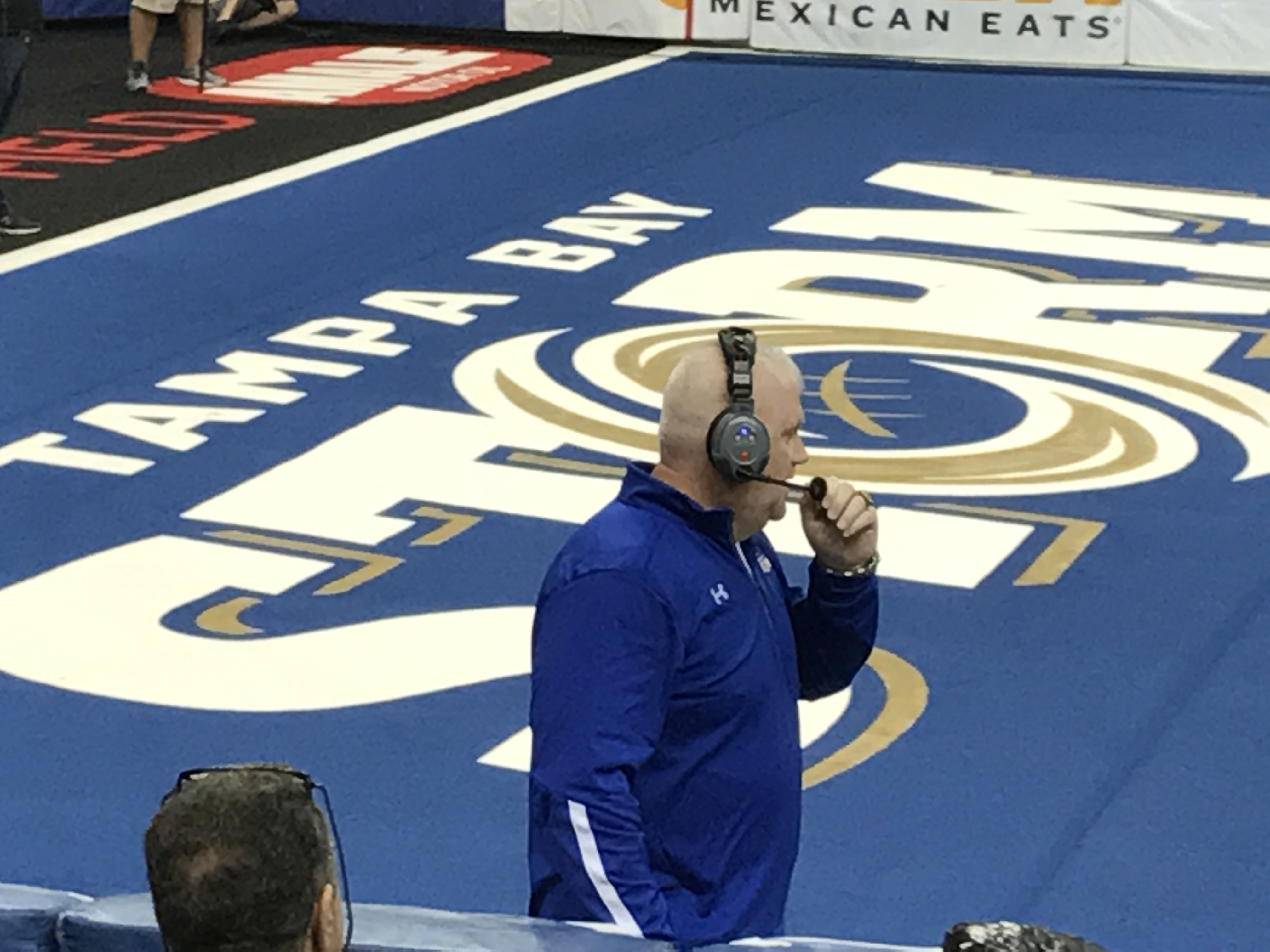 Ron James on April 22, 2017